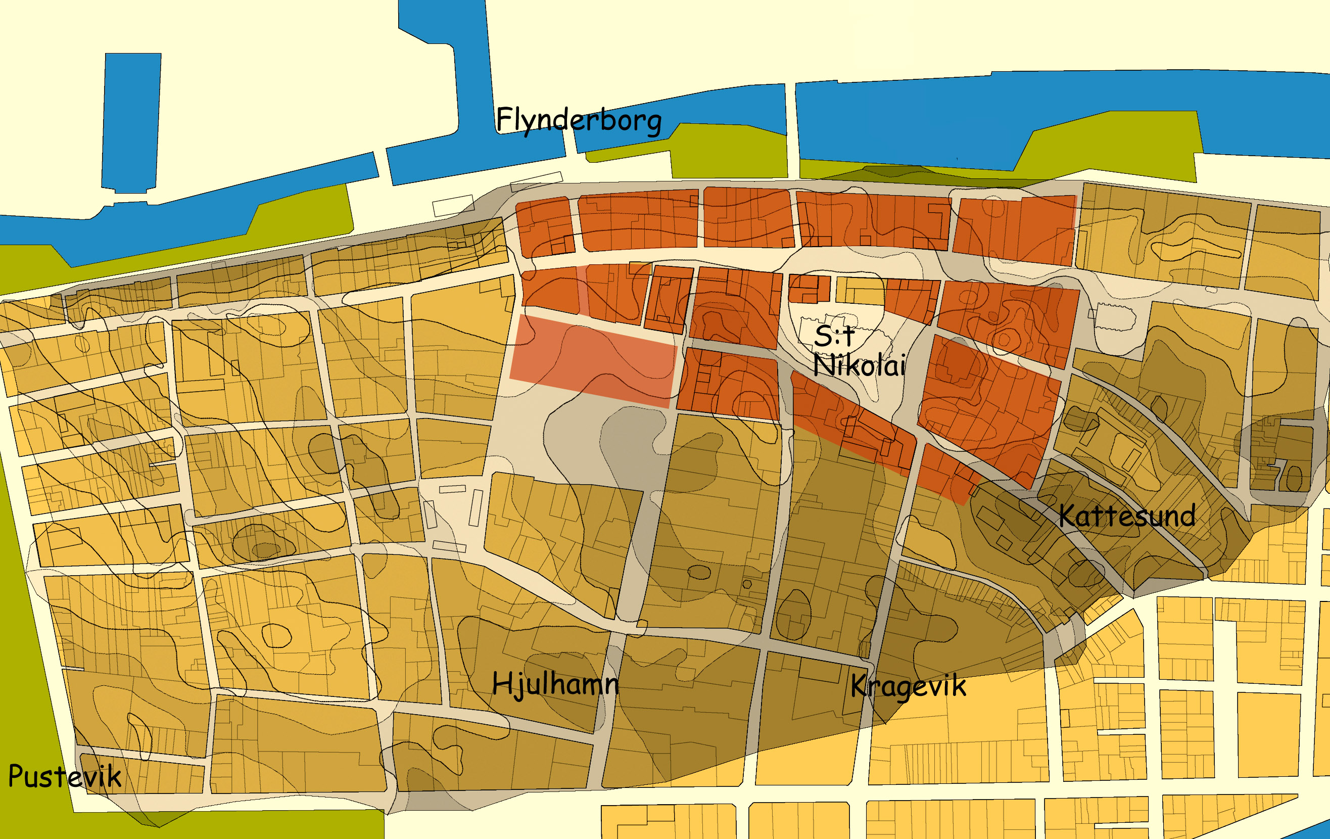 Map of the oldest part of Malmö from about 1250 (red color) and the ground level of the city from archeological investigations.